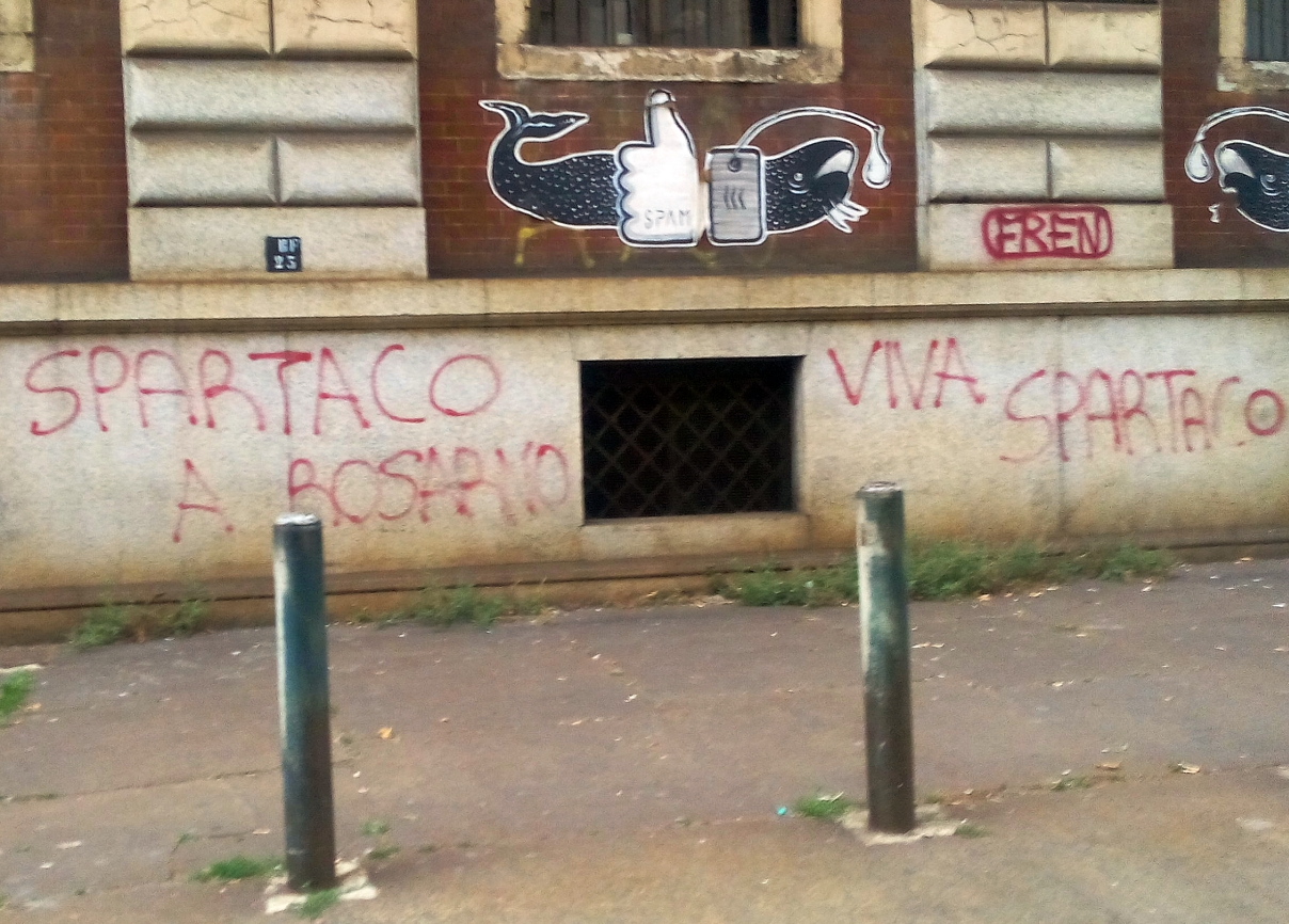 "Spartaco a Rosarno" ("Spartacus in Rosarno"), graffiti in Turin, via Valperga Caluso